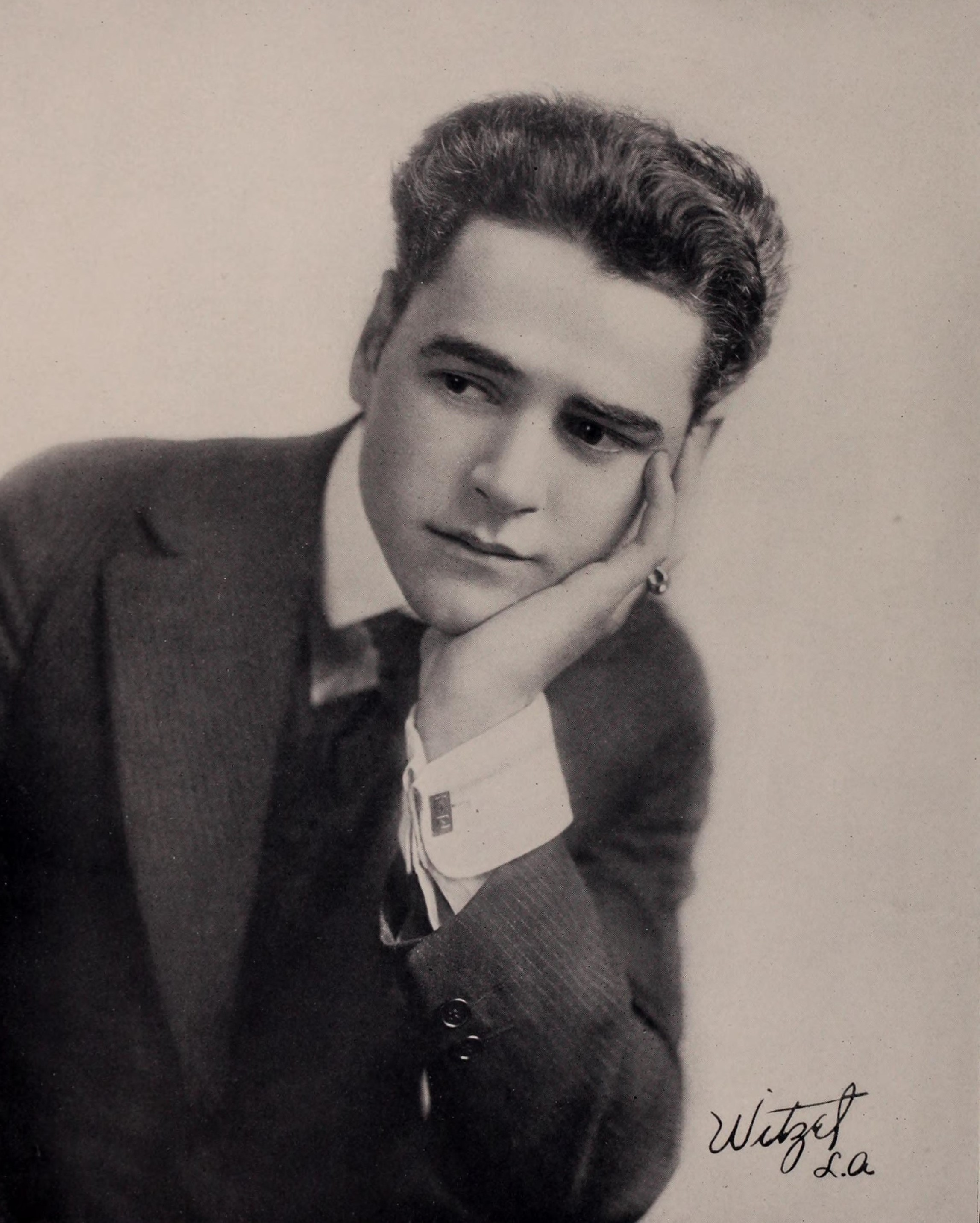 Portrait published previously in Motion Picture, July 1915.